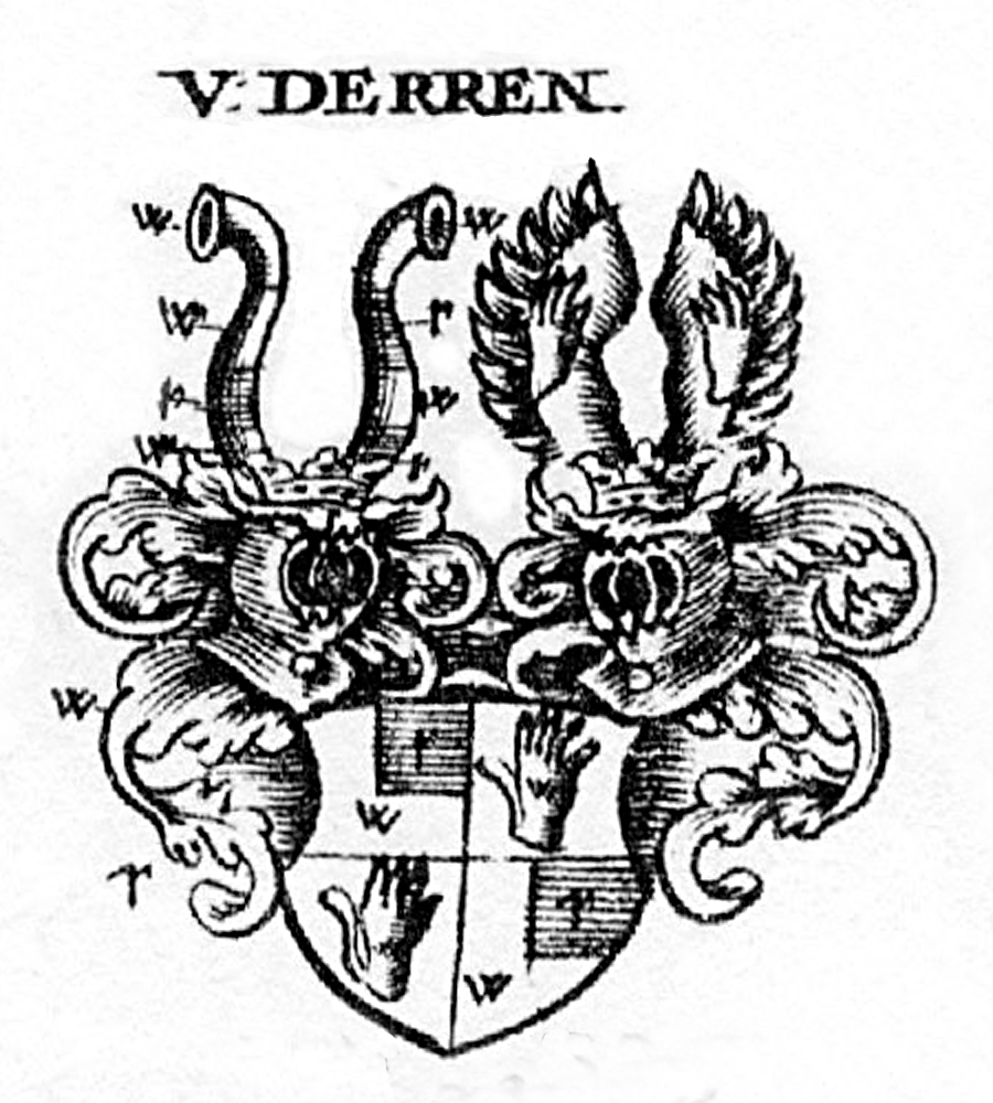 Coat of Arms of Derren